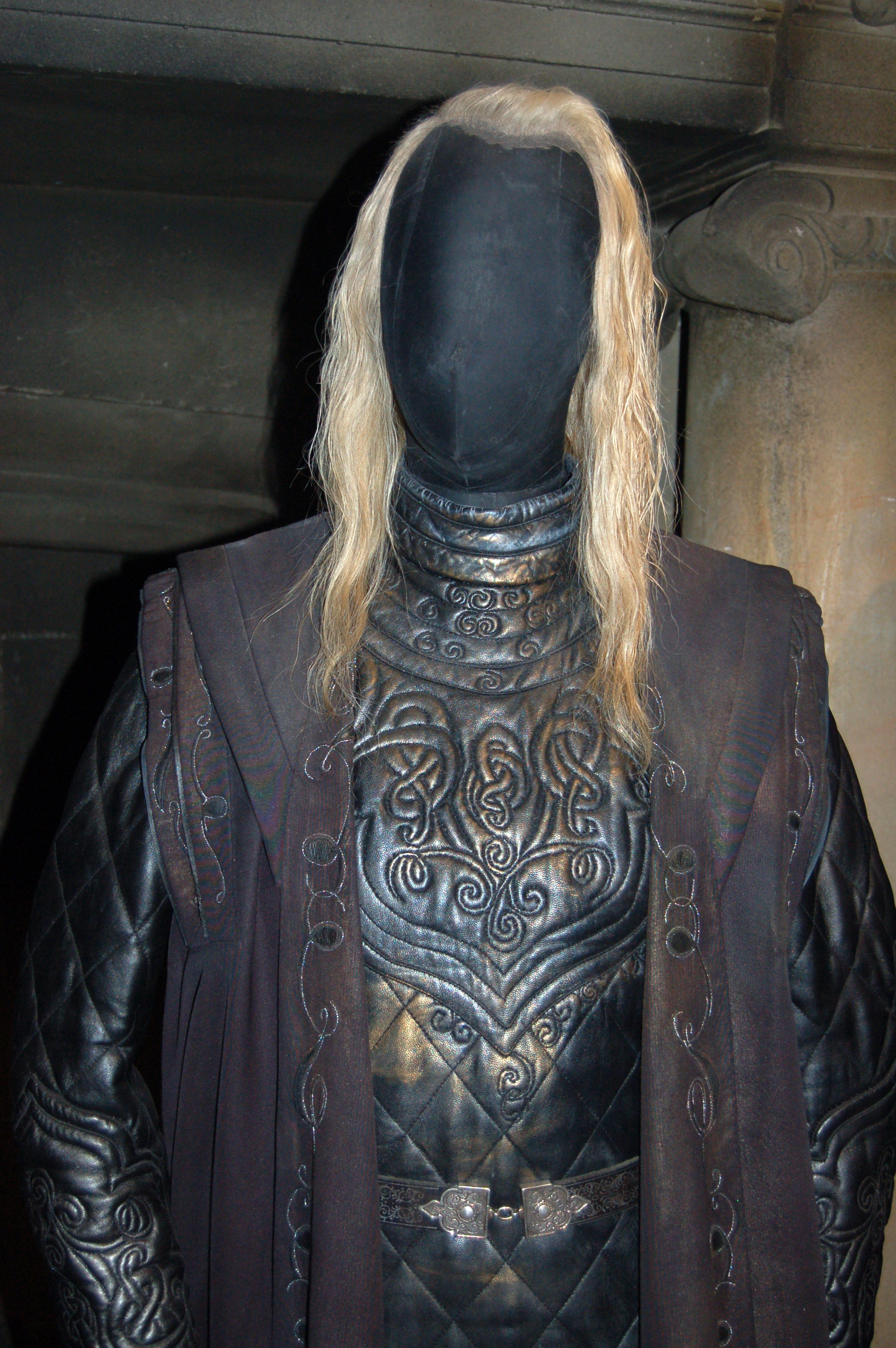 Worn by Jason Isaacs in Harry Potter and the Deathly Hallows - Part 2